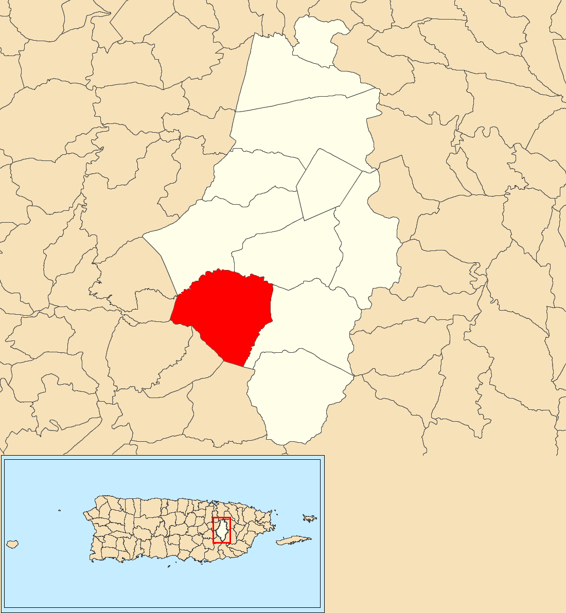 Beatriz, Caguas, Puerto Rico locator map